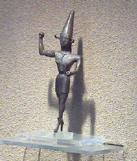 Bronze statue of a God; height : 11.4 cm; found at Dövlek; 16th-15th c. BC; Museum of Anatolian Civilizations, Ankara, Turkey